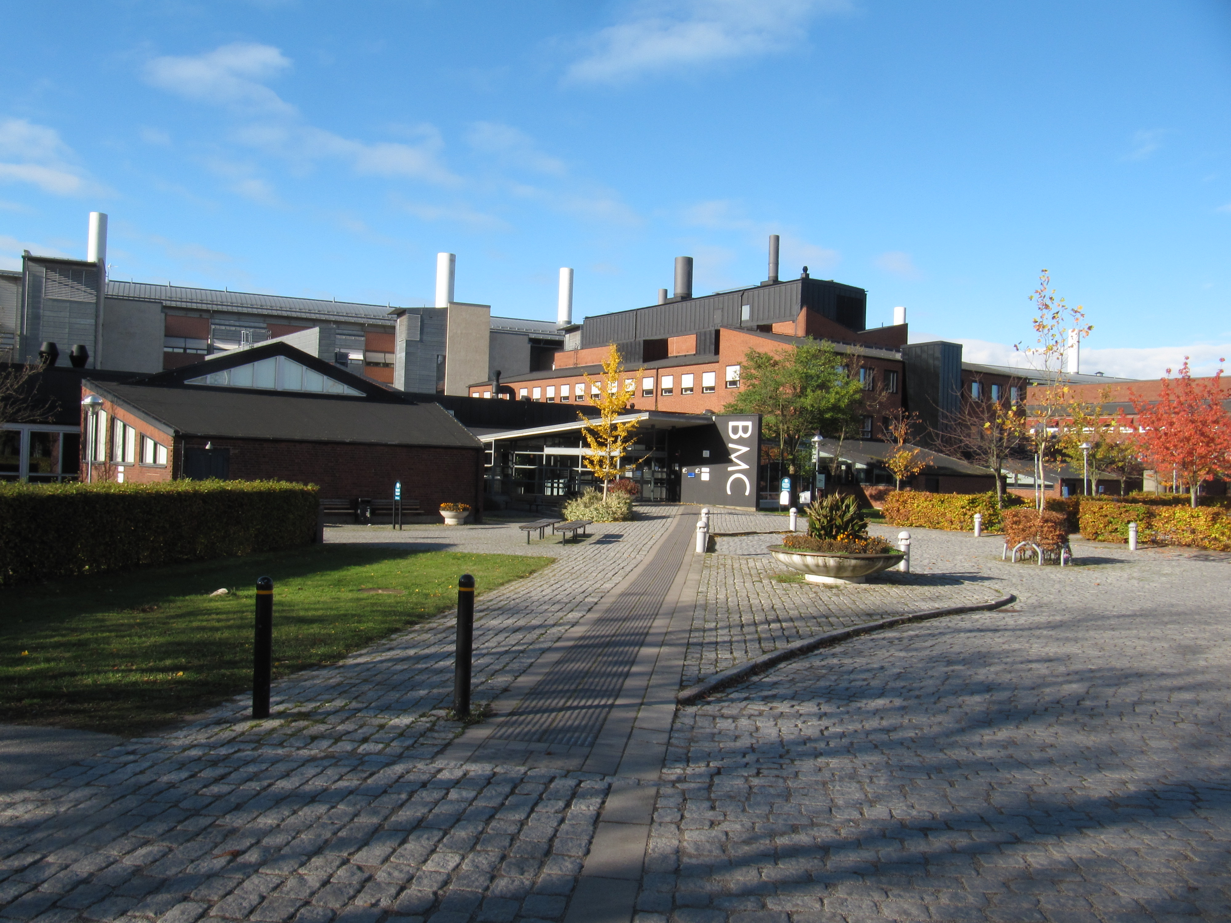 Picture of the main entrance of the Biomedical Center (BMC) in Lund, Sweden. BMC is a combined education and research facility at Lund University.